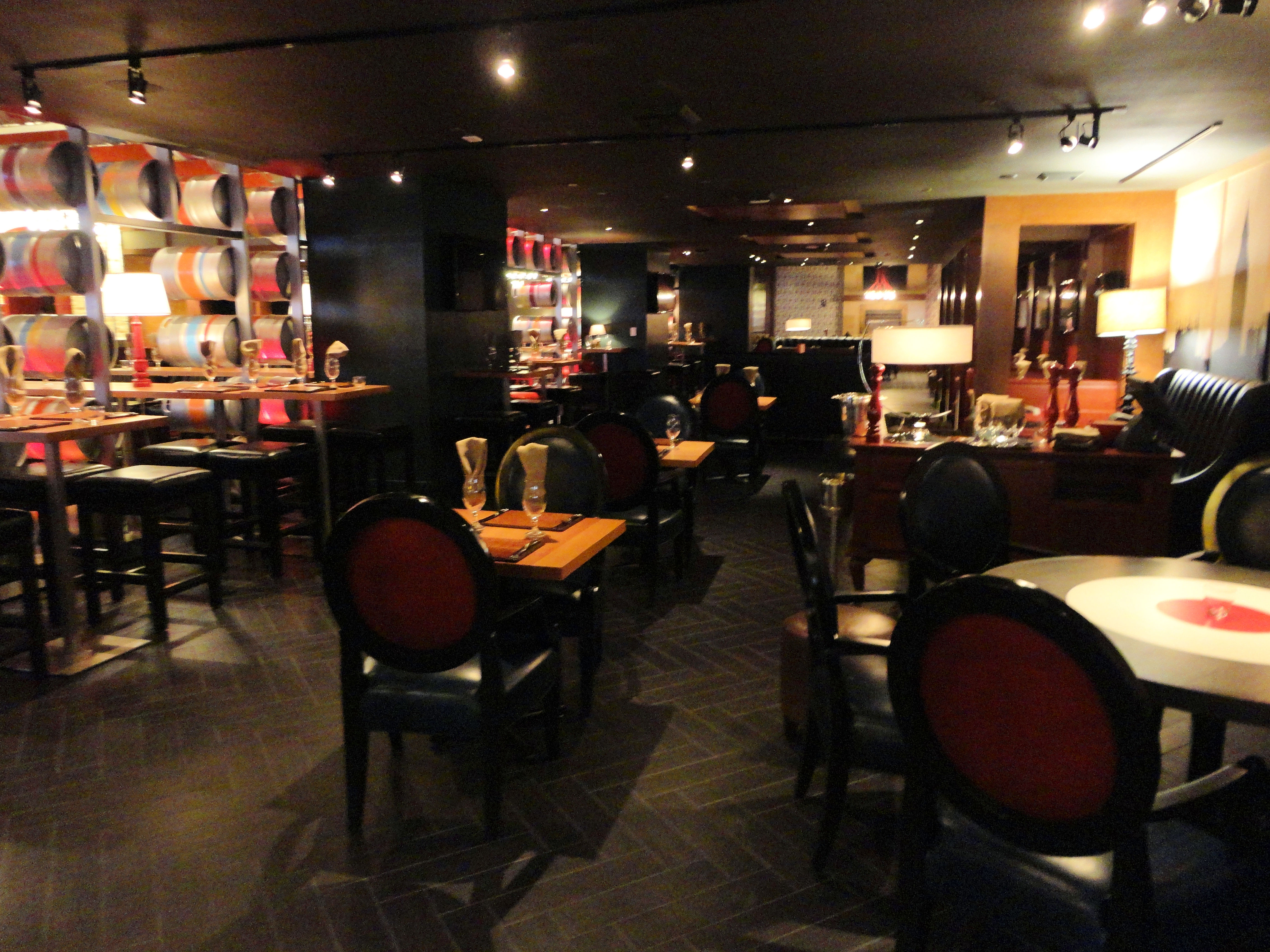 Gordon Ramsay Pub and Grill, Caesar’s Palace Hotel and Casino, Las Vegas, Nevada, USA Gordon Ramsay’s Pub and Grill, Caesar’s Palace Hotel Casino and the Forum Shops, Las Vegas, Nevada, USA